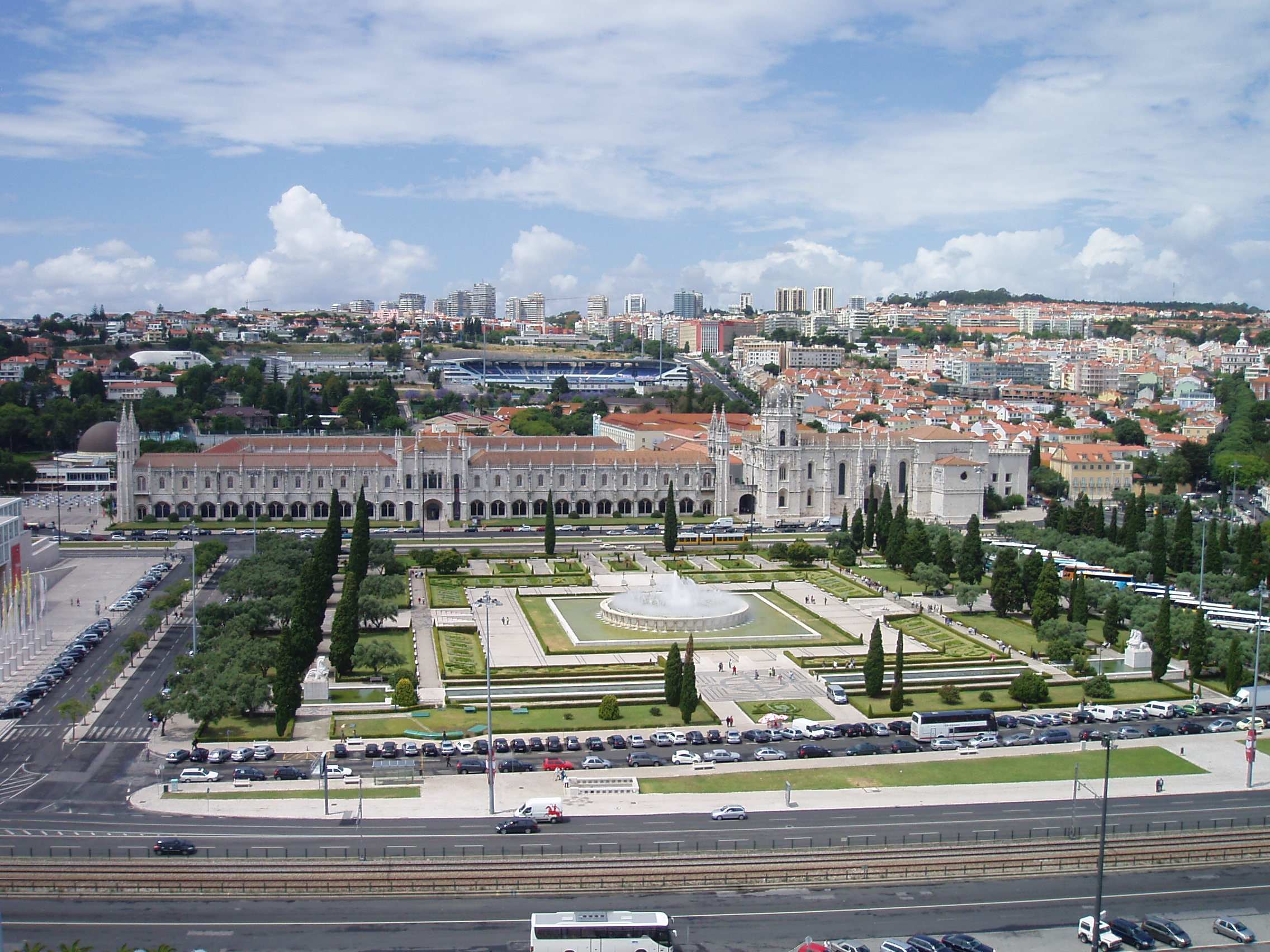 Inland view in Lisbon, Portugal, from the top of the Monument to the Discoveries.